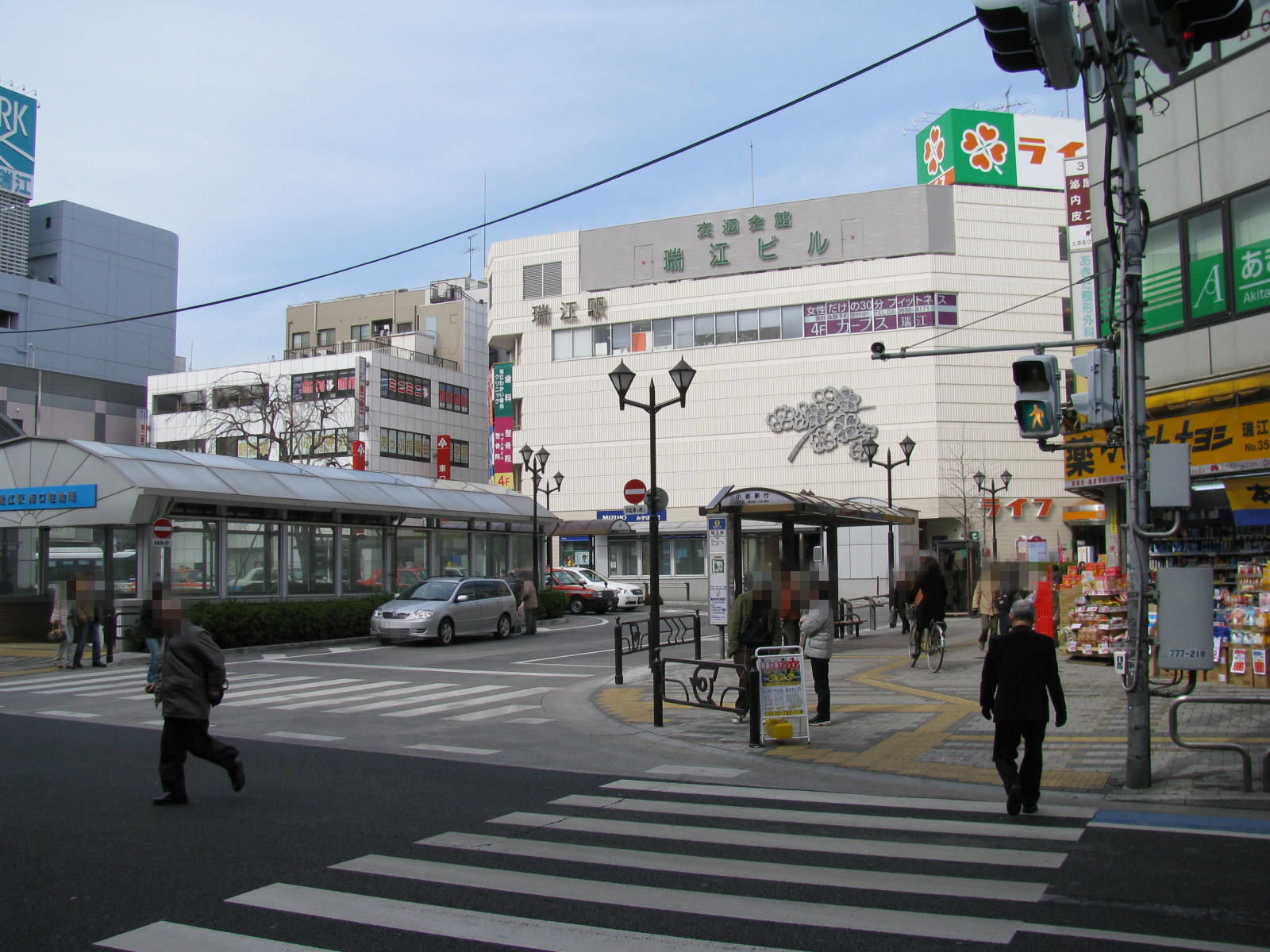 Mizue Station on Toei Shinjuku-Line